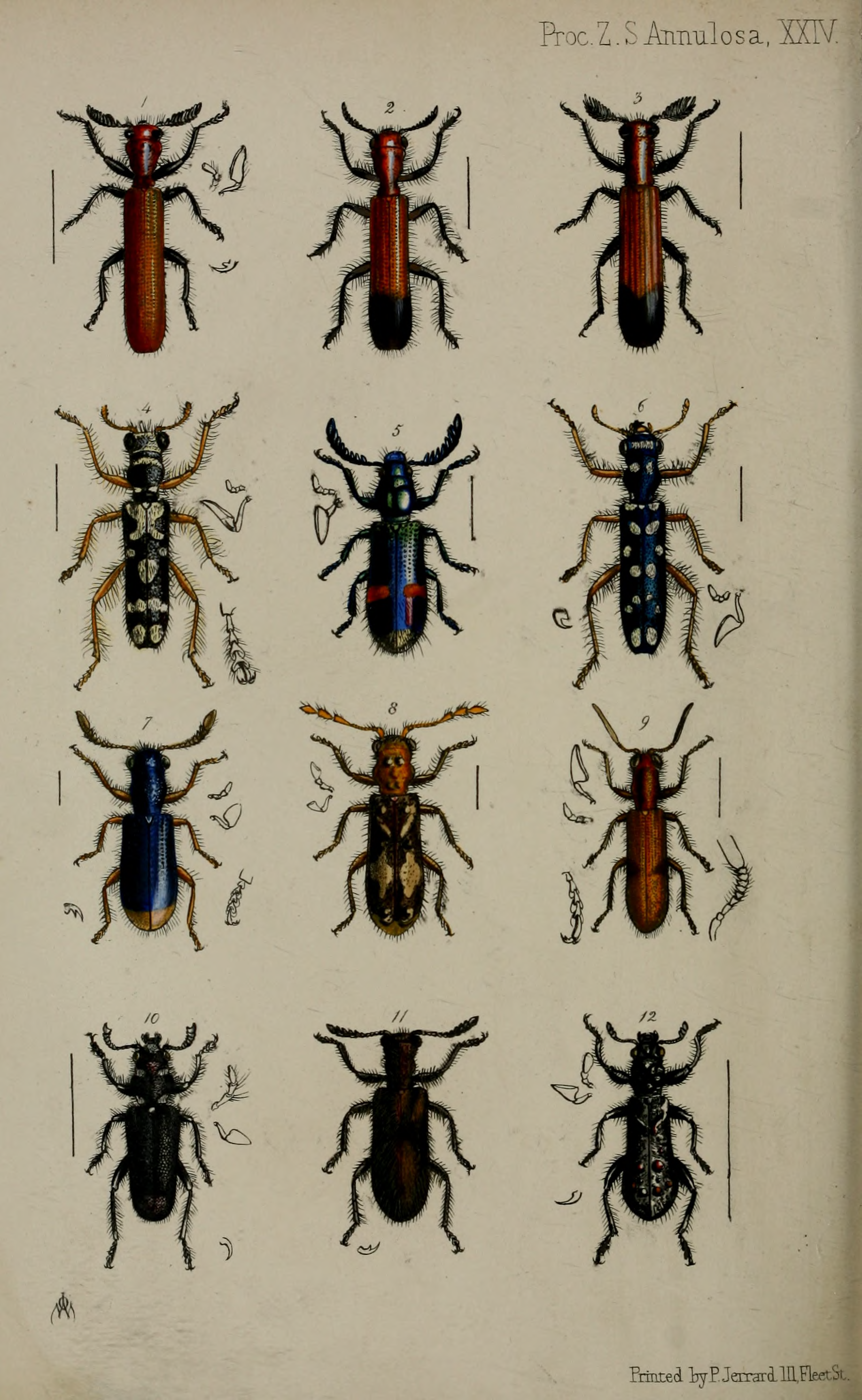 Twelve species of checkered beetles, some with anatomical details of labial palps and legs.